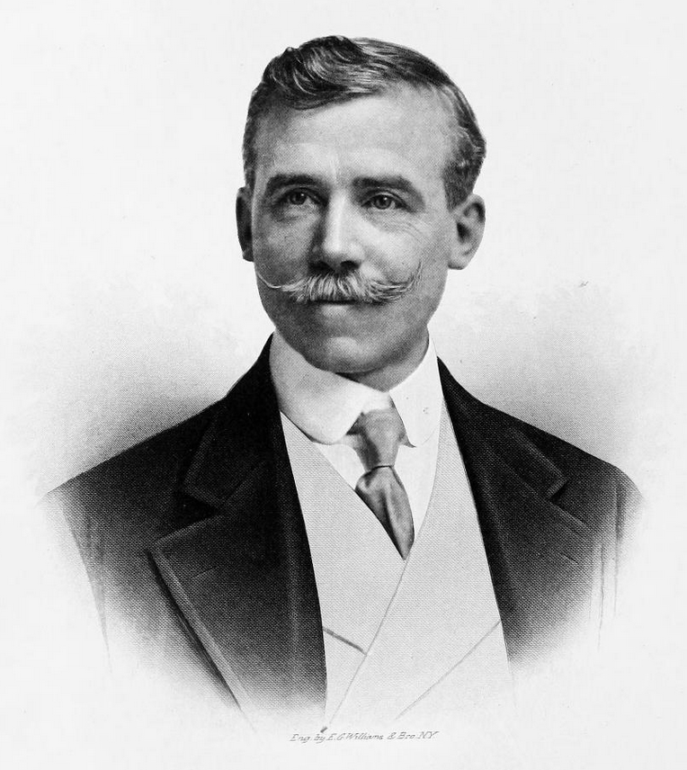 Alexander Winton, founder of Winton Motor Car Company